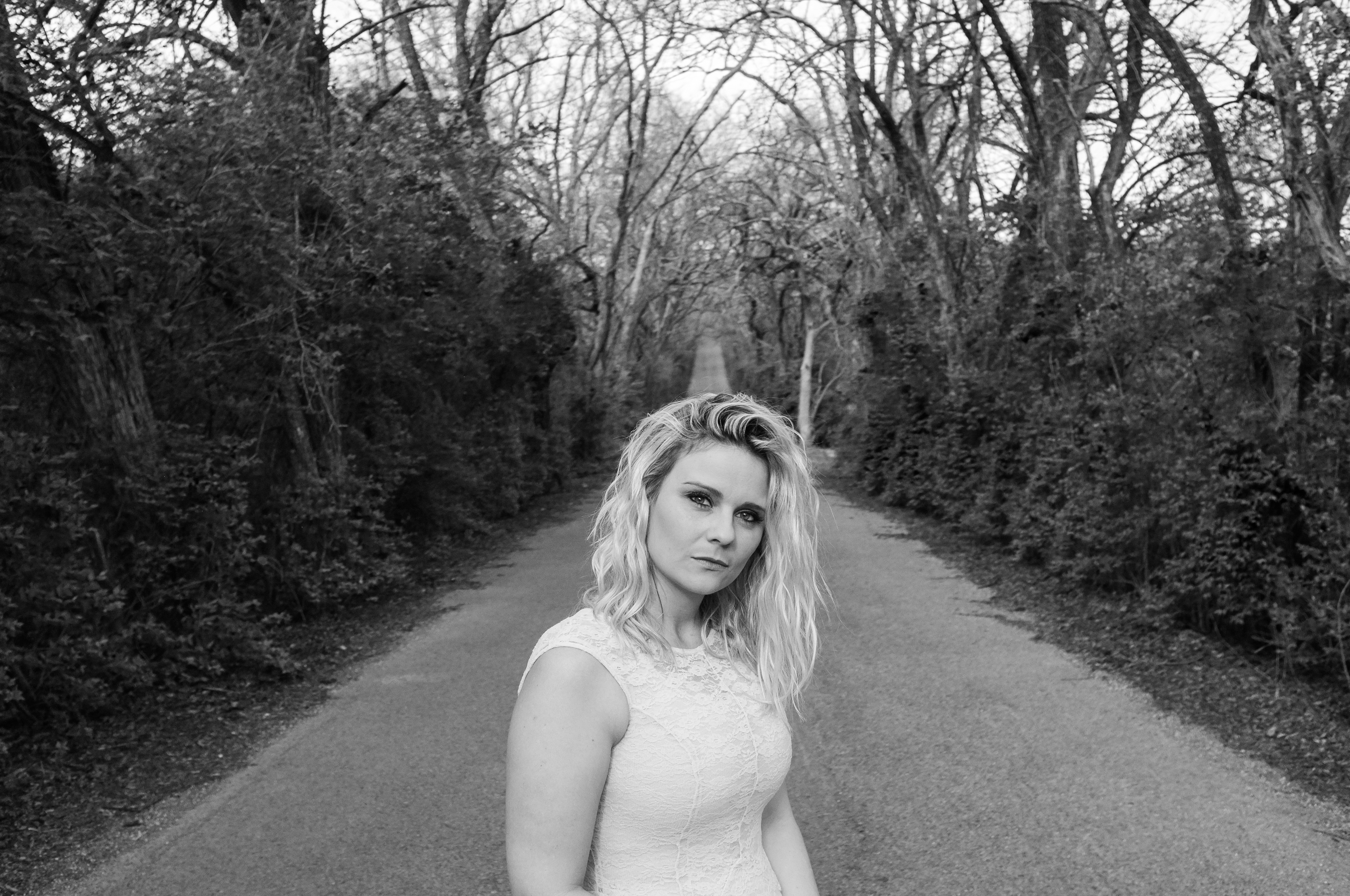 Lanaé in EP publicity photo